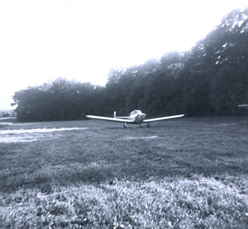 1946 Ercoupe at Suburban Airport, Laurel MD taken June 1960